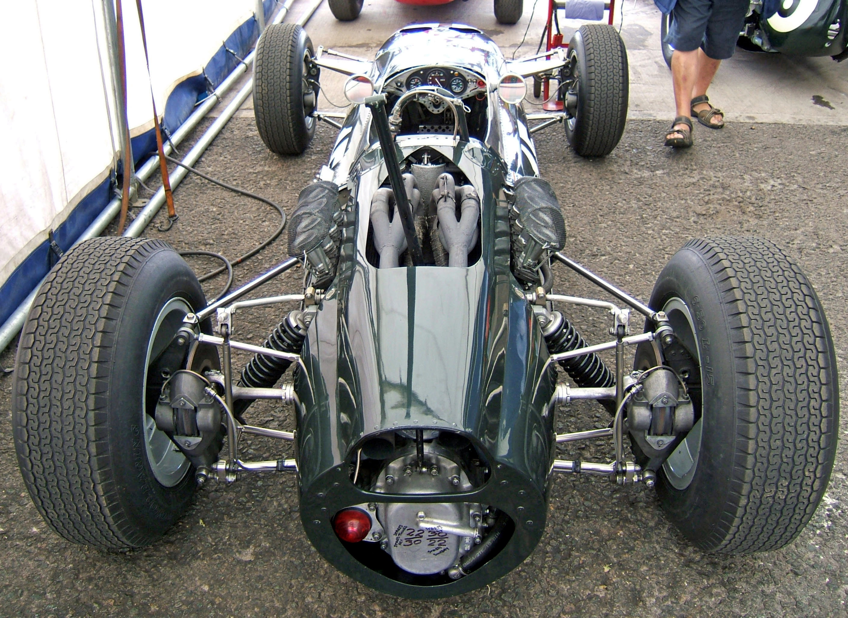 Richard Attwood's BRM P261 seen from the rear, waiting in the paddock of the VSCC SeeRed race meeting, Donington Park, September 2007. This view shows well the characteristic "biscuit barrel" engine cover. The roll hoop support is disconncted and is leant back, protruding from between the exhaust manifolds.